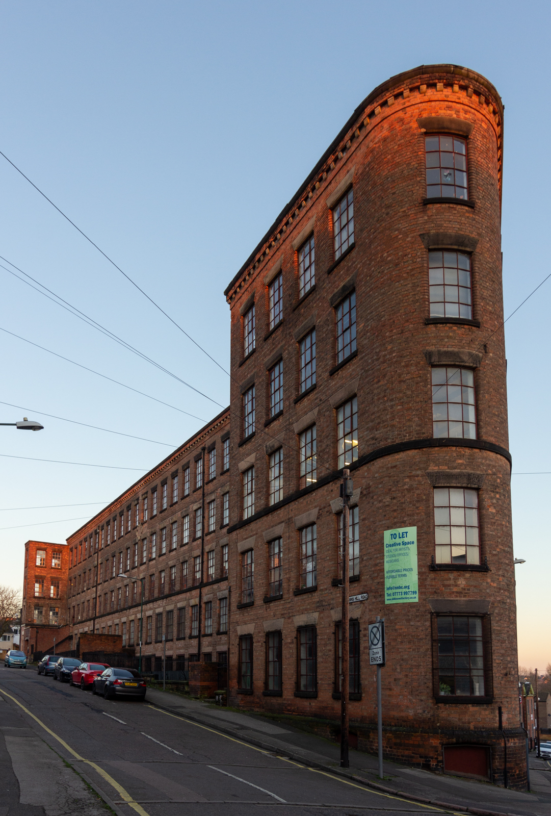 Photo of the former lace factory known as Oldknows Factory in Nottingham, UK. Taken from St Ann's Hill Road